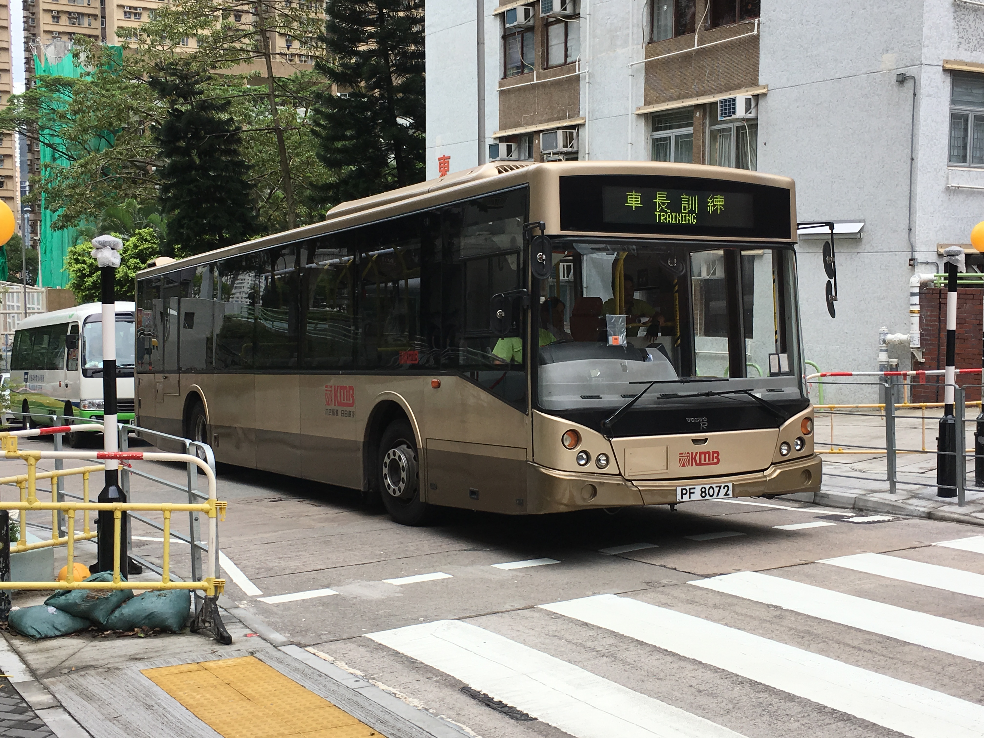 This photo is taken in Lei Tung Estate.